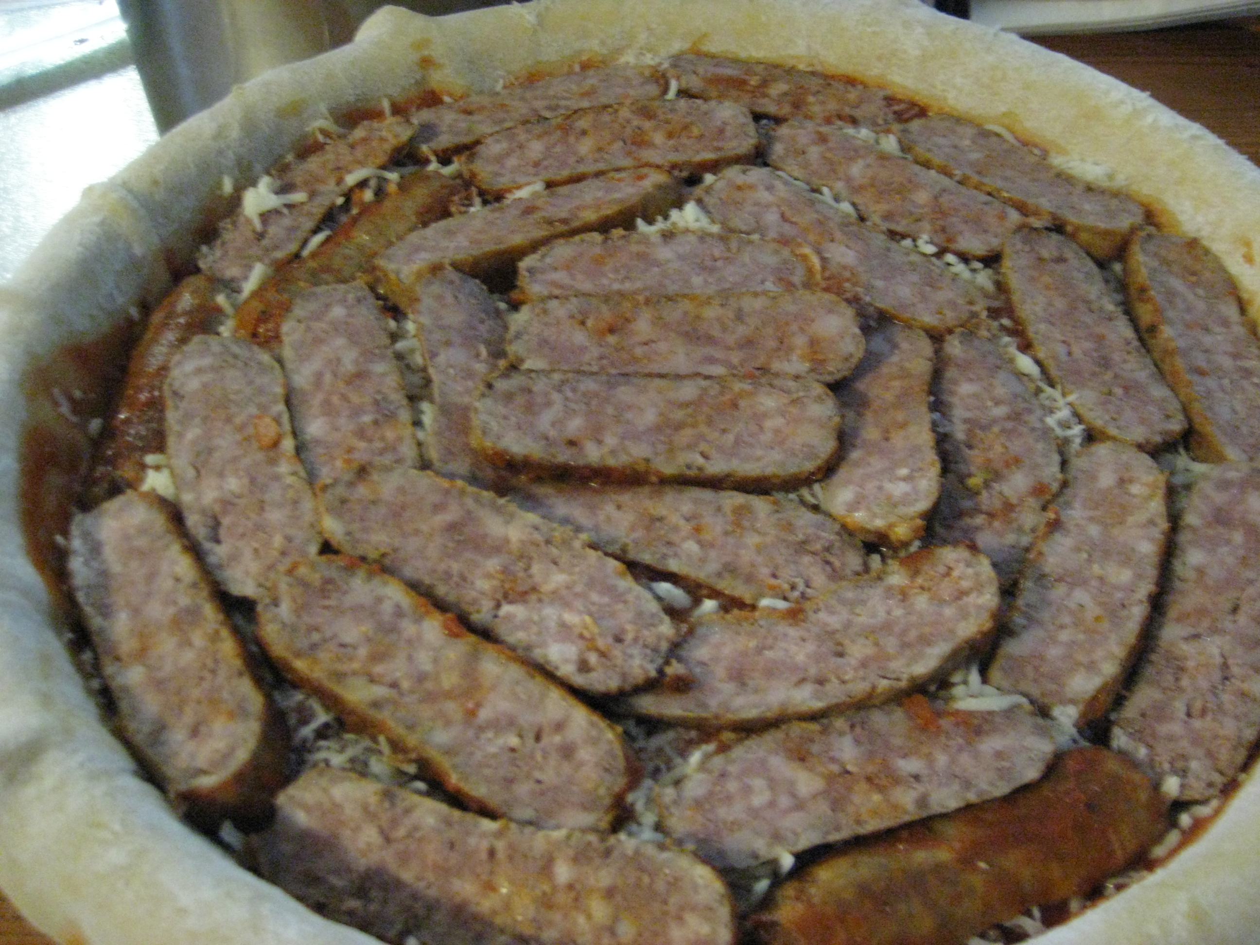 Timballo Pattadese under construction